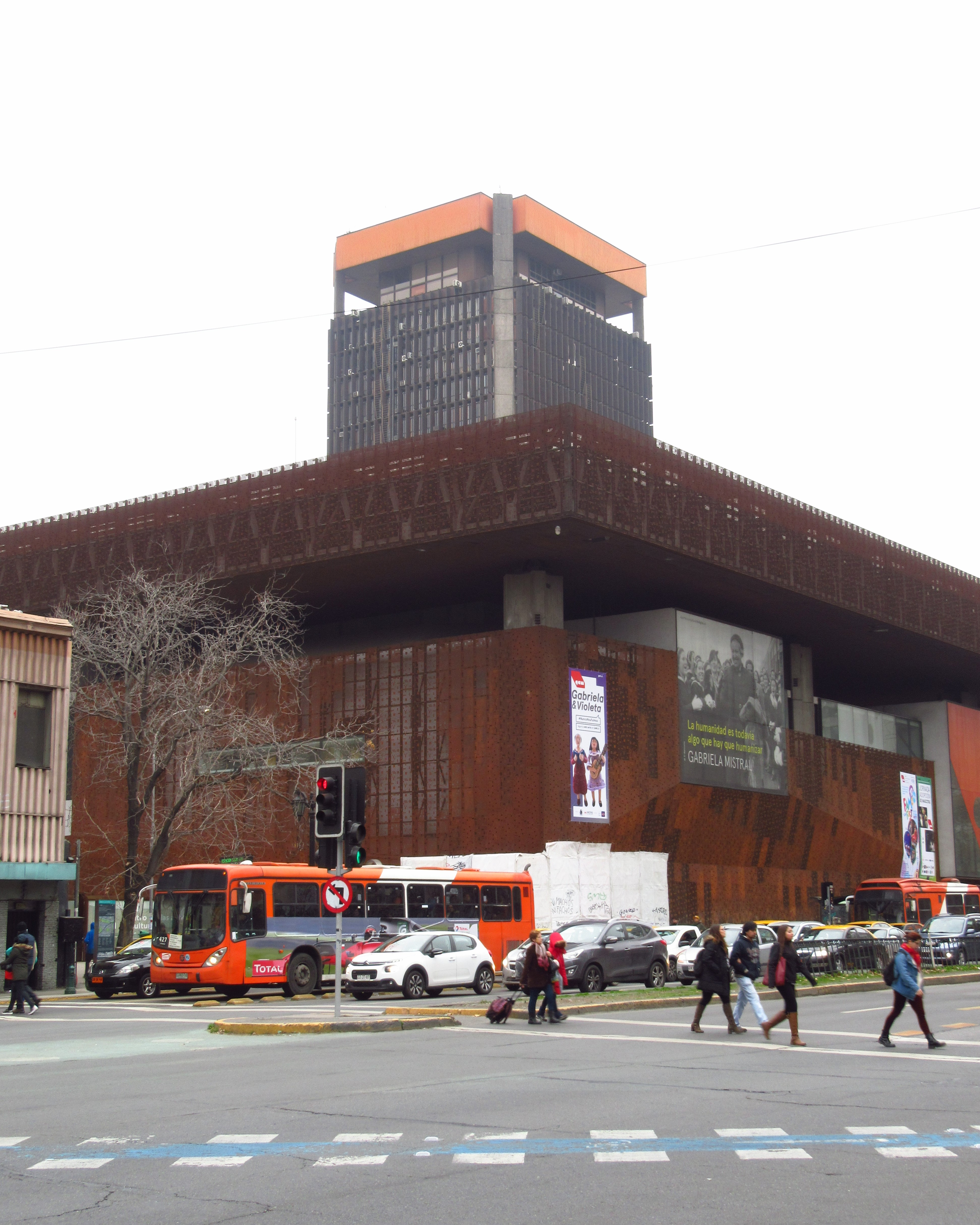 2017 in Santiago de Chile